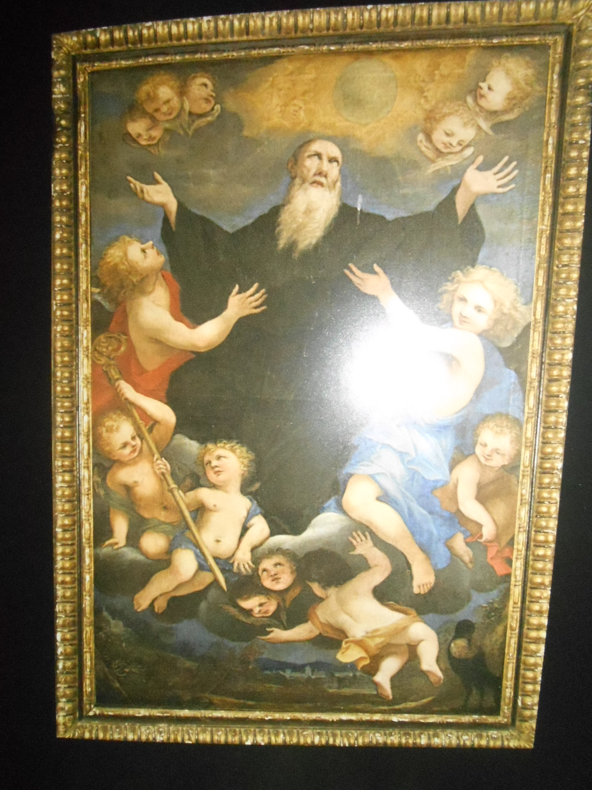 san benedetto